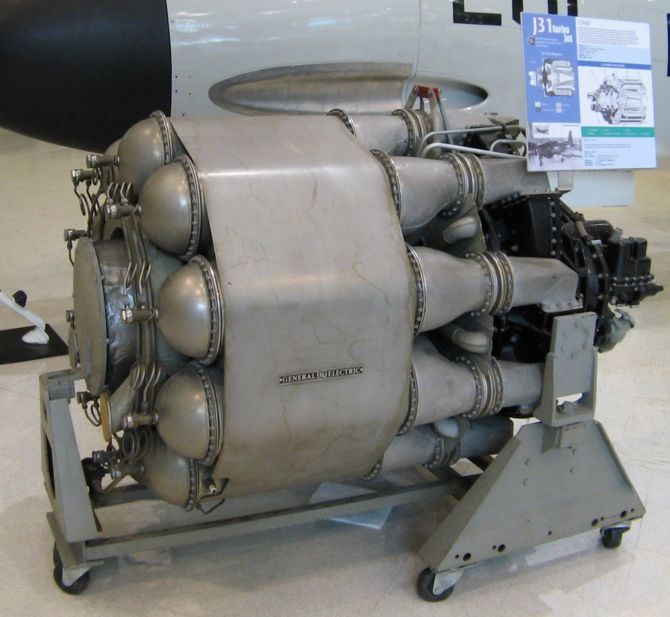 General Electric J31 turbojet, Naval Aviation Museum, Pensacola, Florida